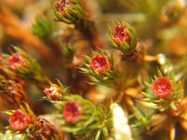 A moss - Polytrichum piliferum Polytrichum piliferum has the common name Bristly Haircap. Though it might pass at first sight for a tiny alpine flower, this is a moss rather than a flowering plant; the red flower-like structures (called perigonia, or splash cups) are visible at the end of male shoots in spring. "Splash cups" refers to the fact that these structures aid with the dispersal of the plant's sperm cells by rain. The grey-white hair-points that extend from the leaf tips are an important feature that distinguishes this species from the otherwise very similar Polytrichum juniperum (which has reddish-brown leaf tips). This moss was growing on rock, in an acidic upland environment; this is a quite typical habitat for this very common species, which also occurs as an early colonist of freshly burnt heathland. [E.V.Watson, "British Mosses and Liverworts"]